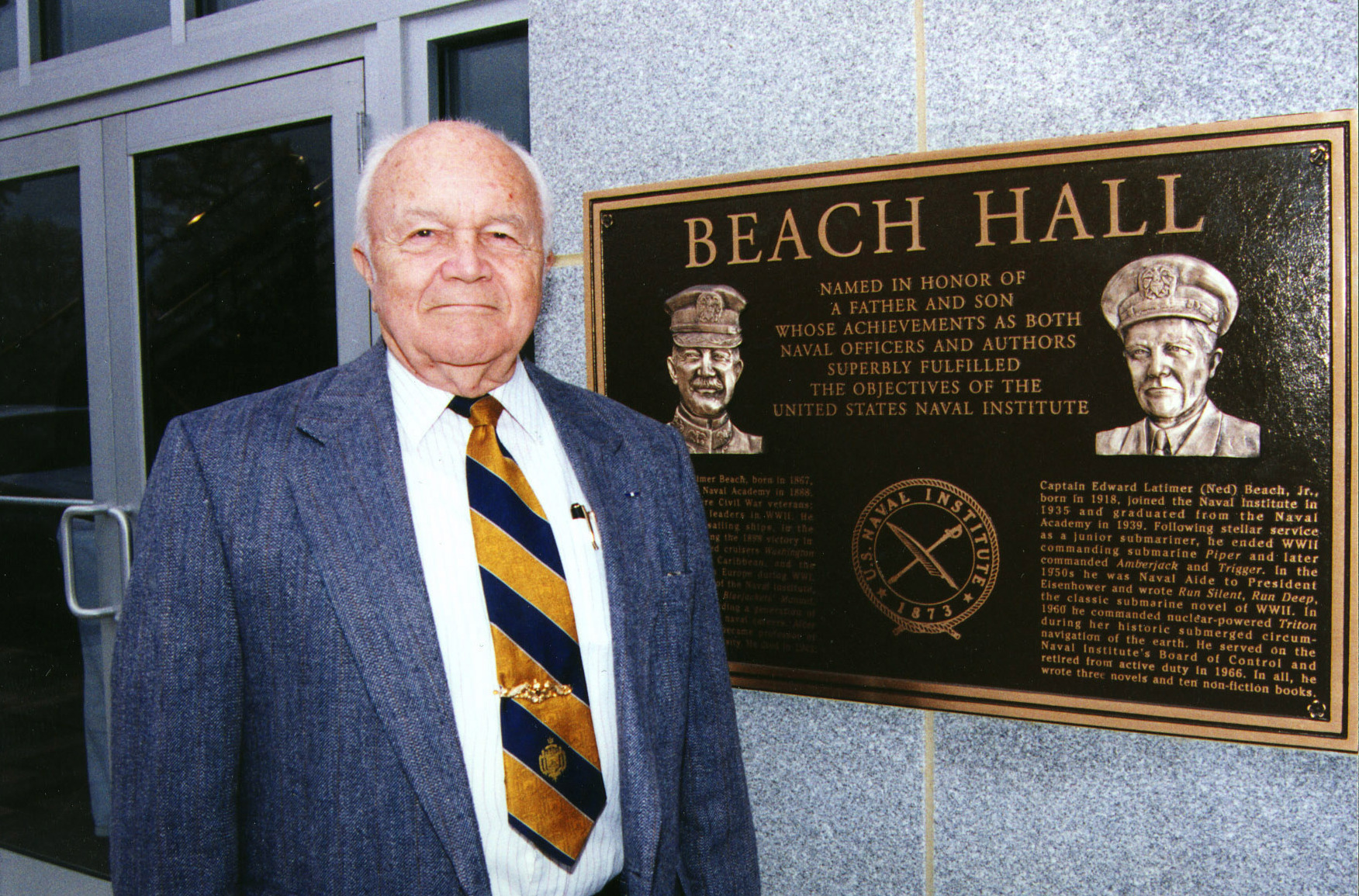 Captain Edward L. Beach, USN (ret.) at the dedication of Beach Hall, the new headquaters of the U.S. Naval Institute, in 1999.